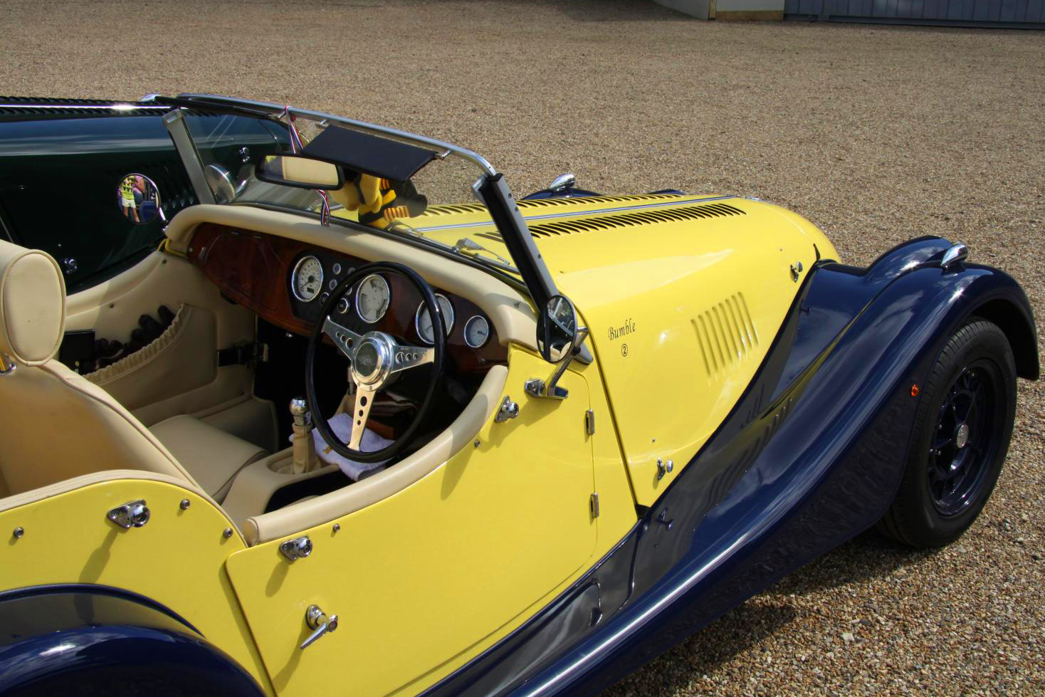 Morgan 4/4 interior @ the Eastern Counties area for the Morgan Sports Car Club